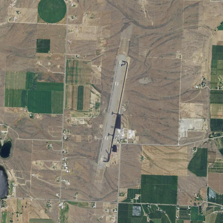 USGS digital orthophoto of Omak Airport in the U.S. state of Washington